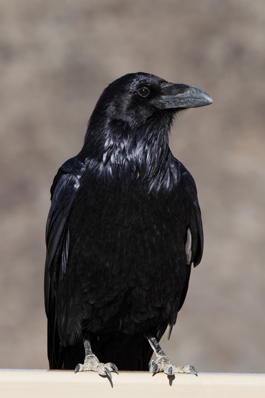 Common Raven (Corvus corax clarionensis), Death Valley, United States.